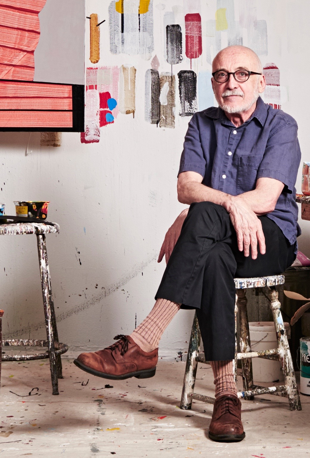 Gary Stephan in his NYC studio. Shot by Zack Garlitos